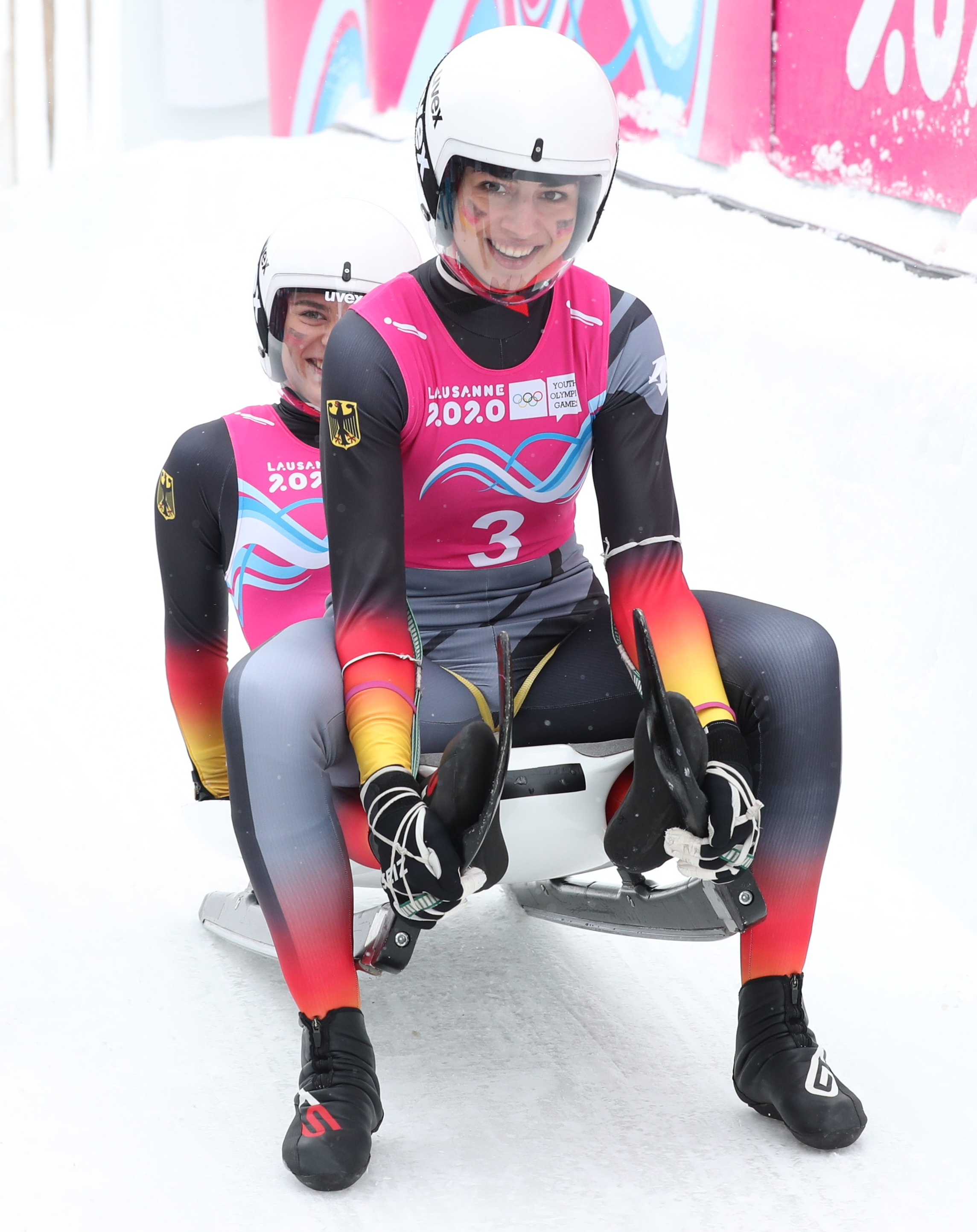 2nd run Luge Women's Double at the 2020 Winter Youth Olympics in Lausanne